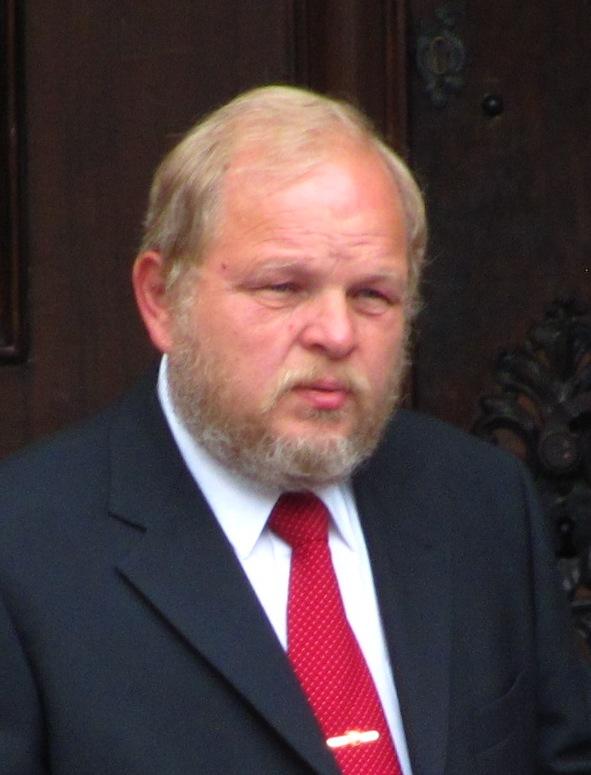 Václav Snopek, Member of the Czech Parliament